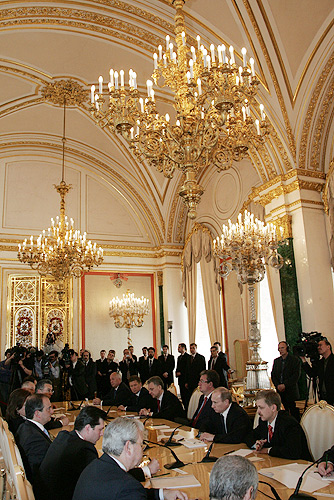 THE KREMLIN, MOSCOW. Talks with Greek Prime Minister Konstantinos Karamanlis.